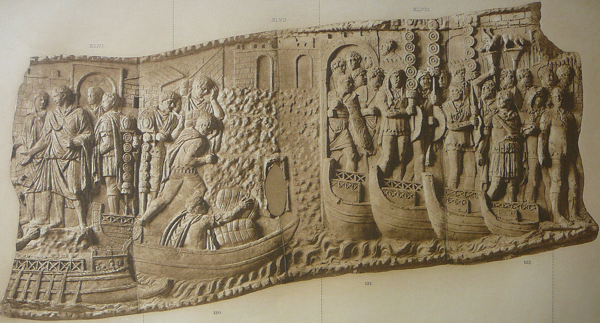 Trajan embarks (scene XLVI); troops disembarking (scene XLVII); troops crossing a river (scene XLVIII)